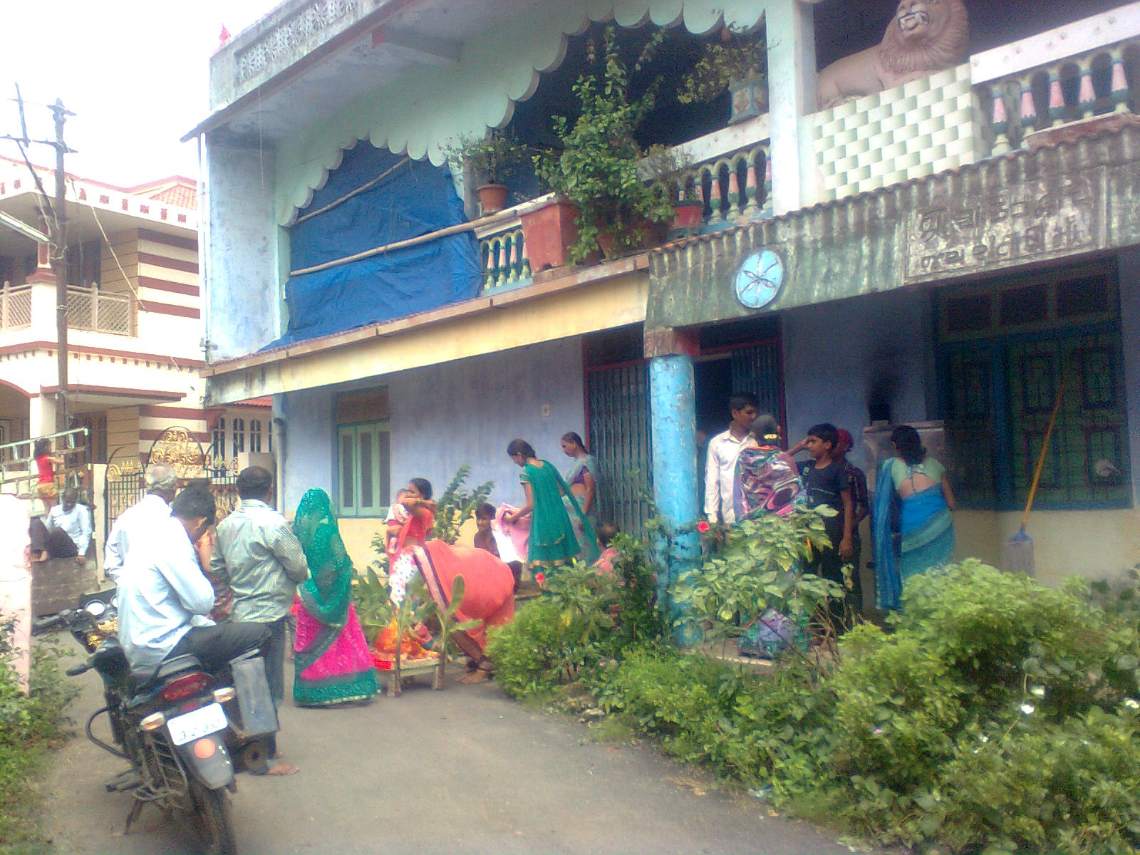 People are taking Kanher -Kanbai for Visarjan carrying them on head